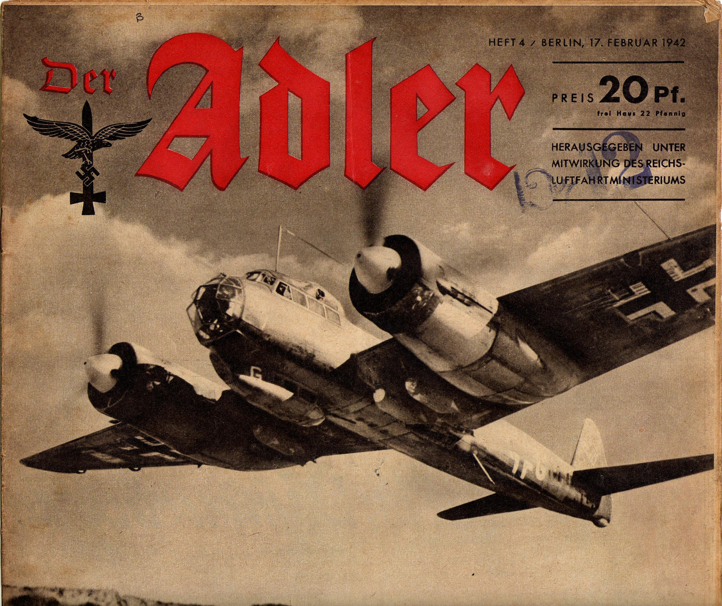 "Der Adler" magazine, cover, 1942. Shows a Ju 88 airplane, of Luftwaffe.